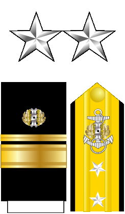 Rear Admiral JAG